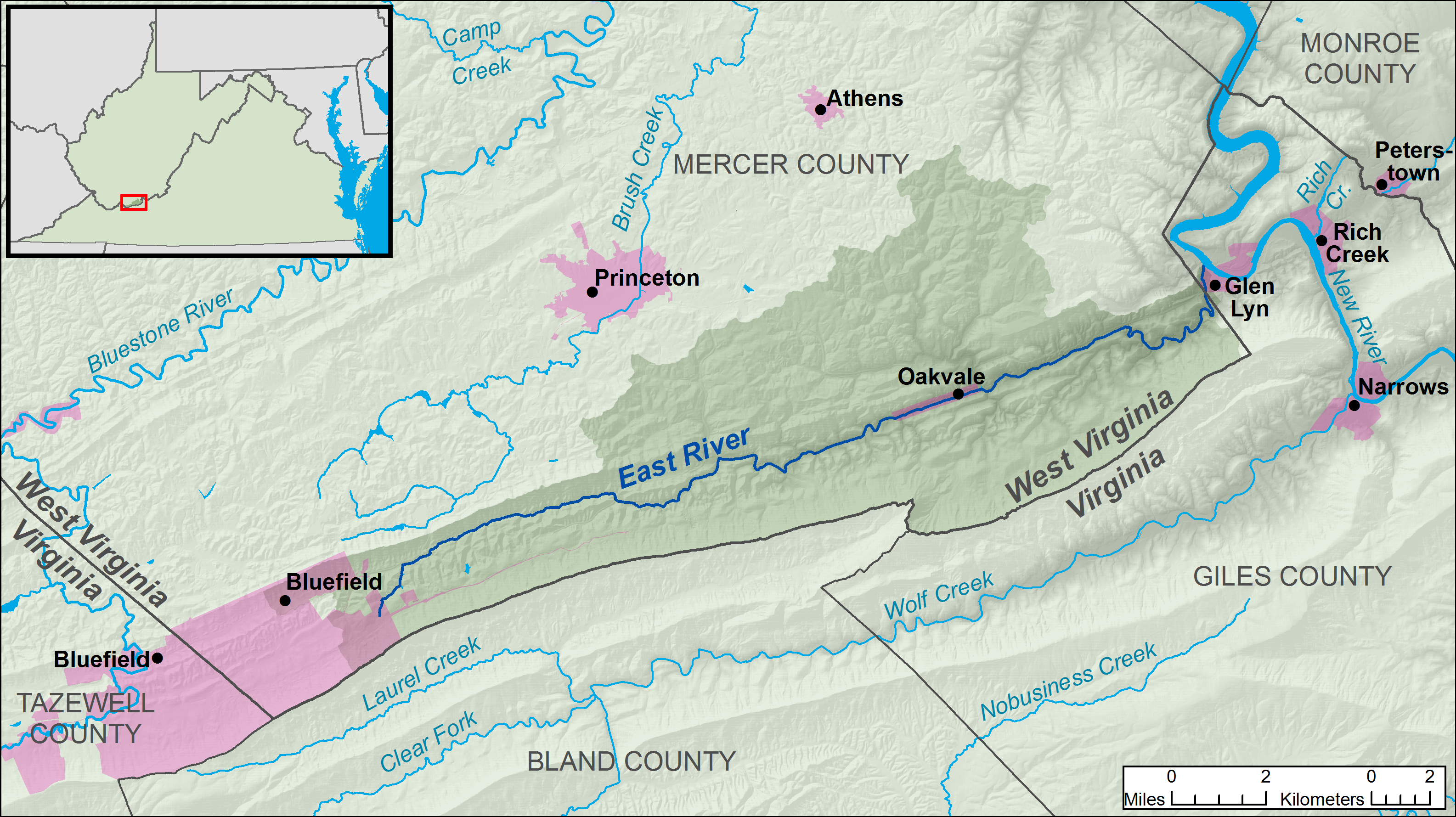 A map of the East River and its watershed (USGS HUC-12 codes 050500020603 and 050500020604), in Mercer County, West Virginia, and Giles County, Virginia.